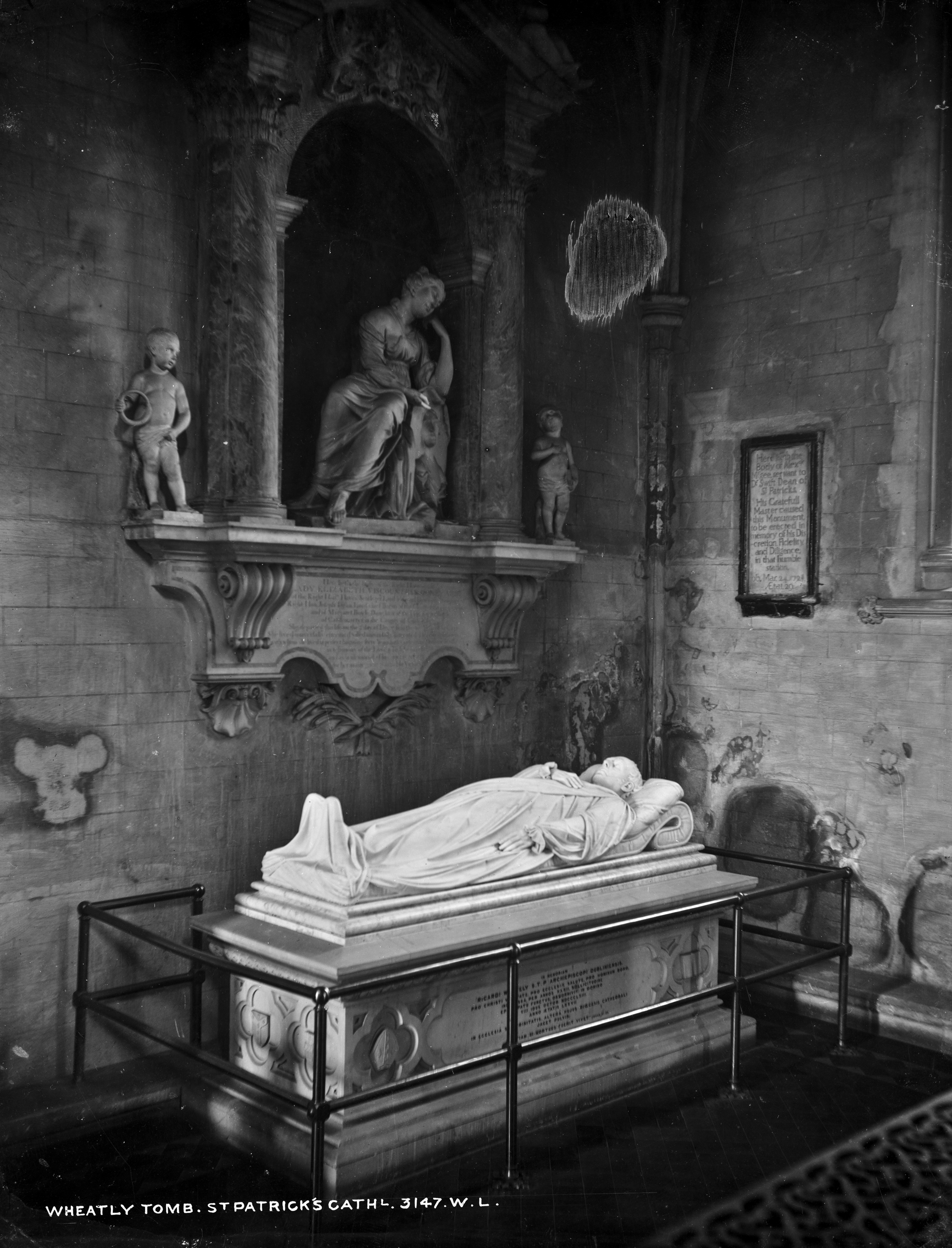 To one of my favourite places in Dublin now, and one of those magnificent monuments to commemorate the great and the good. How great and good the deceased was remains to be discovered - but the monument is impressive! As per today's inputs (and Richard Whately's Wikipedia entry), while his works were impressive, it seems the personality of the man himself was something of an acquired taste. Wikipedia (by way of Who Do You Think You Are?) also tells us that Kevin Whatley (Lewis off of Inspector Morse) was a distant rellie..... Photographer: Robert French Collection: Lawrence Photograph Collection Date: Catalogue range c.1865-1914 NLI Ref: L_ROY_03147 You can also view this image, and many thousands of others, on the NLI’s catalogue at